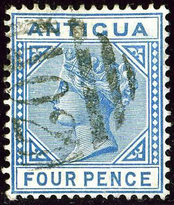 4 d Antigua issue 1879, wmrk crown CC, blue, oval cancelled A02. SG N°20.